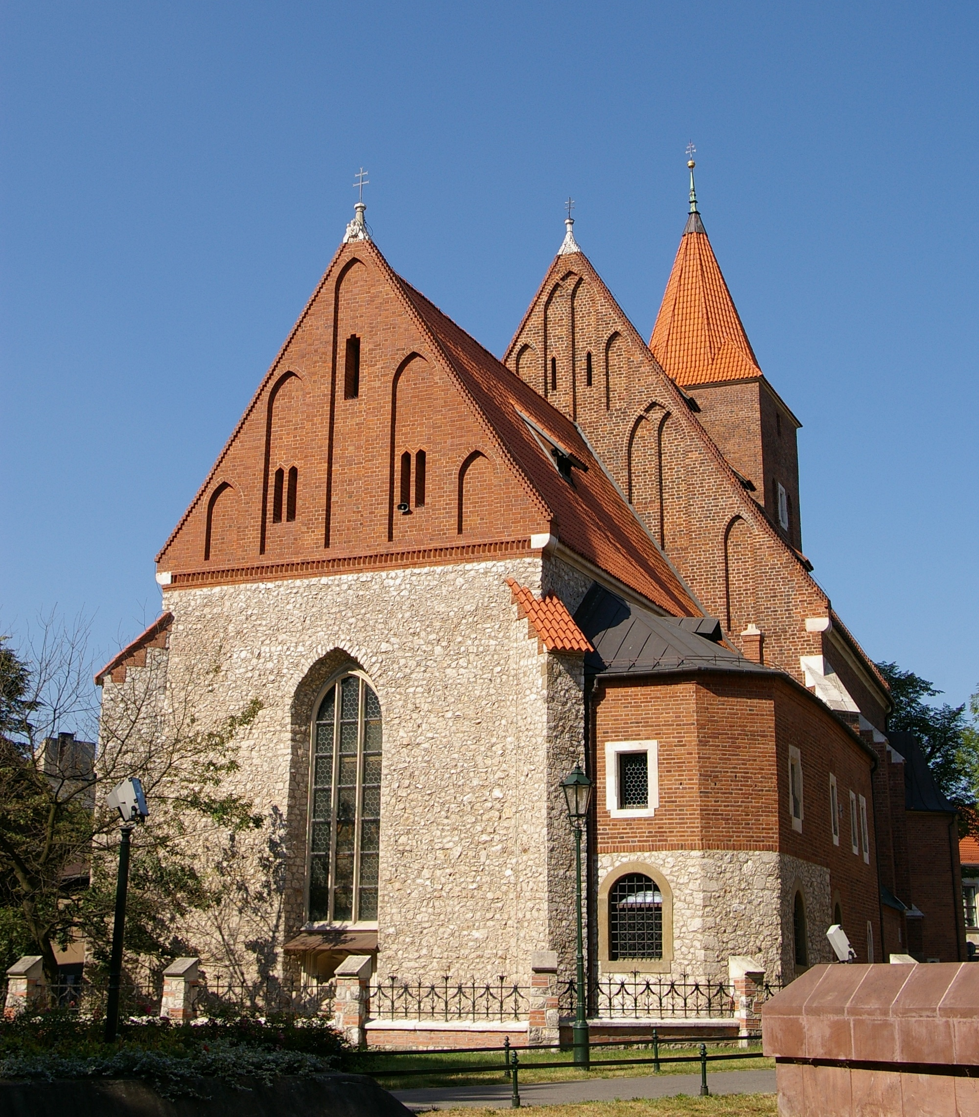 Church of the Holy Cross in Kraków